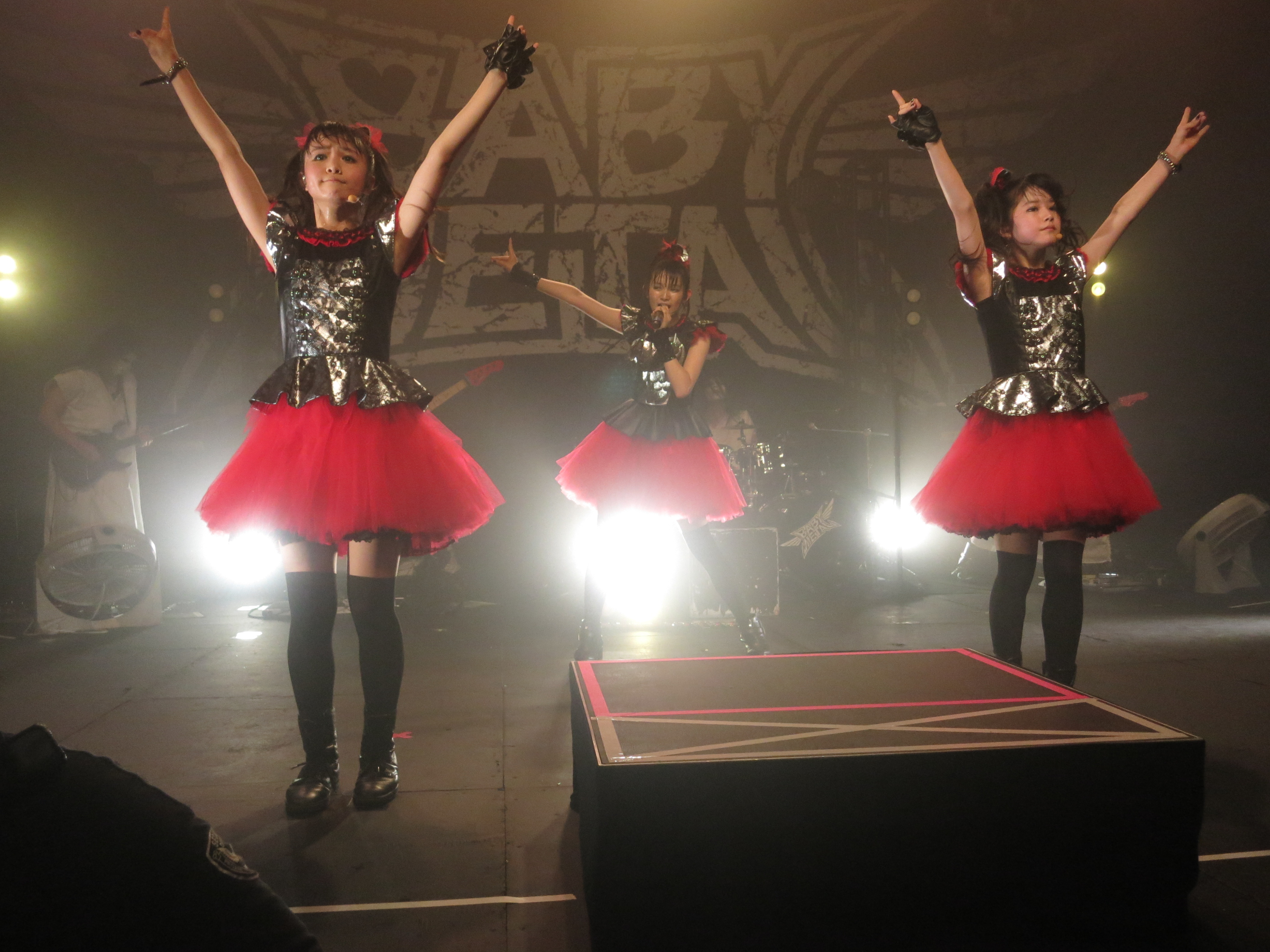 Babymetal performs live at The Fonda Theatre in Los Angeles, CA, USA.